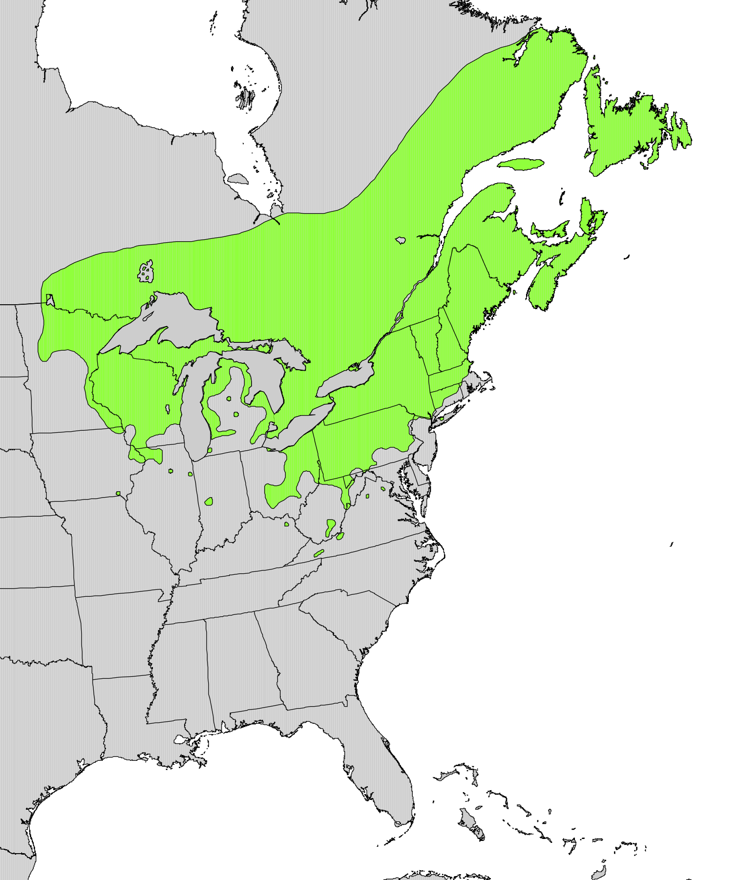 Range map of Taxus canadensis